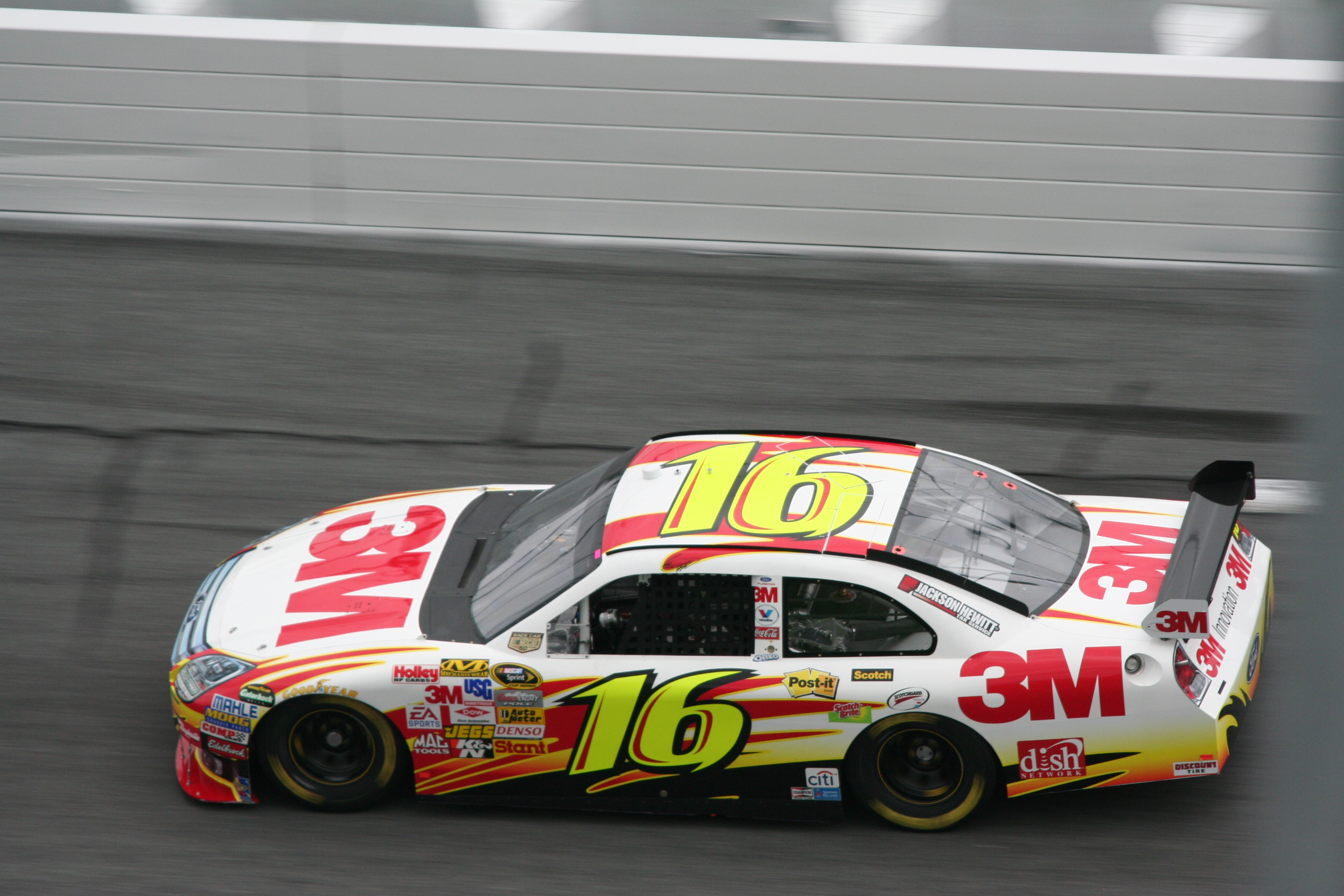 Shot by "The Daredevil" at Daytona during Speedweeks 2008Greg Biffle 3M Ford Fusion